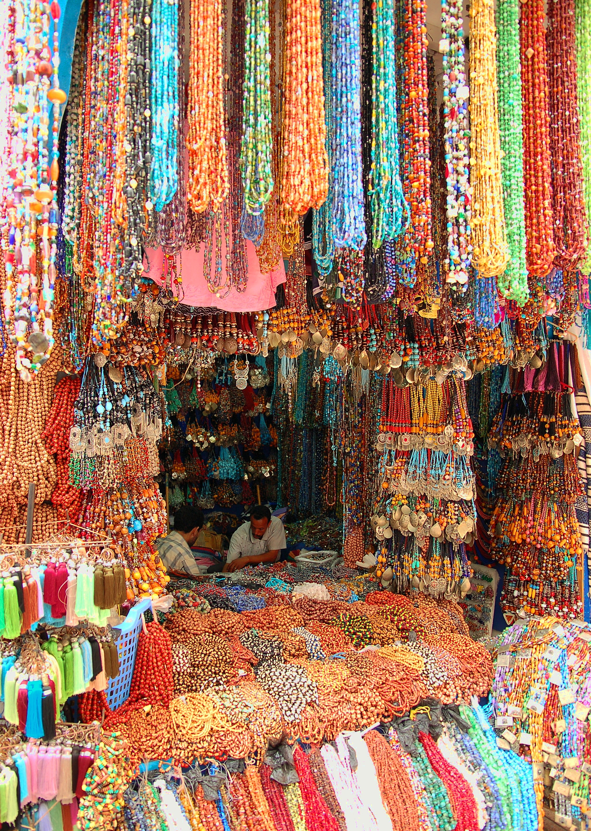 Maroc Essaouira city.